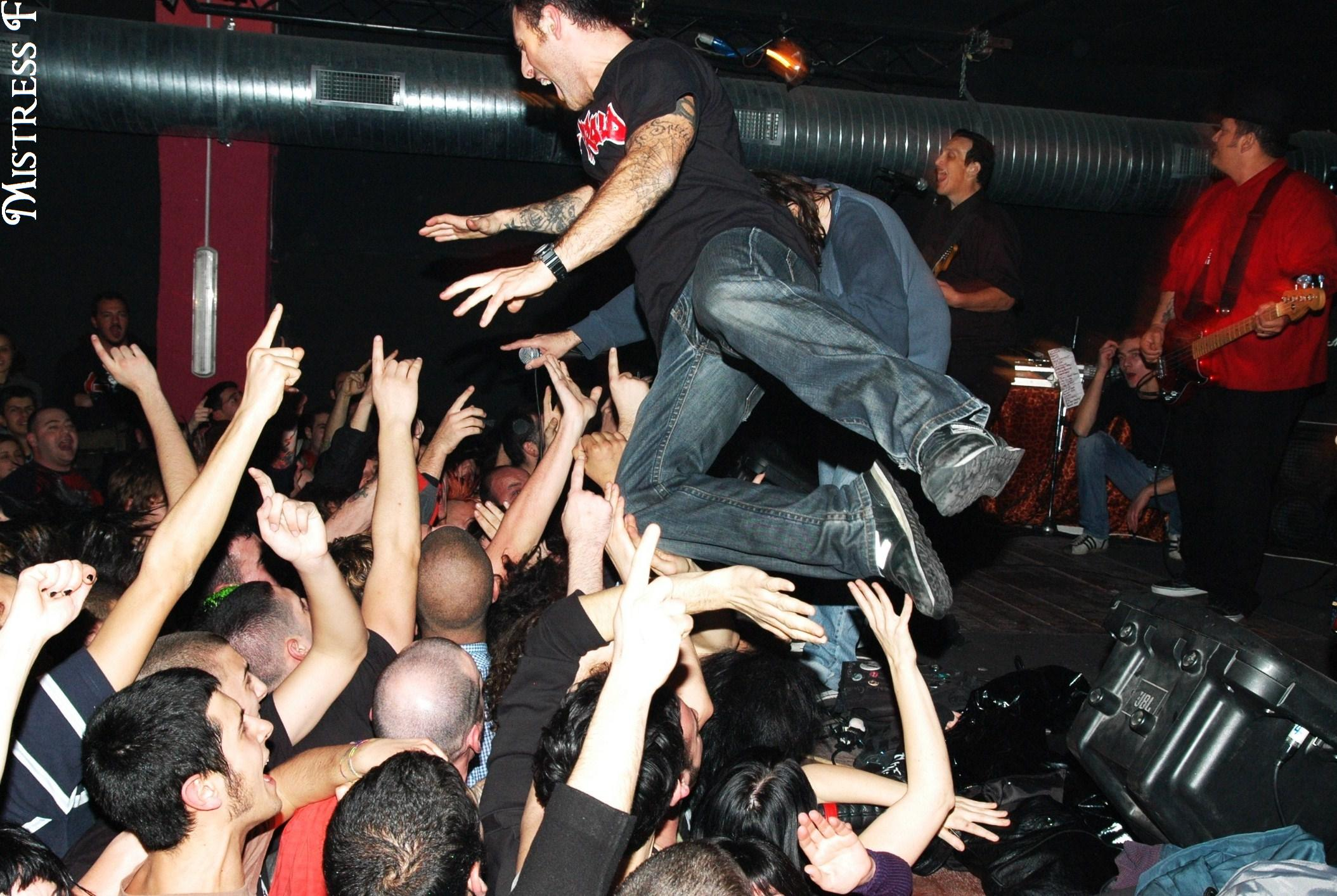 Stagediving @ the Adolescents